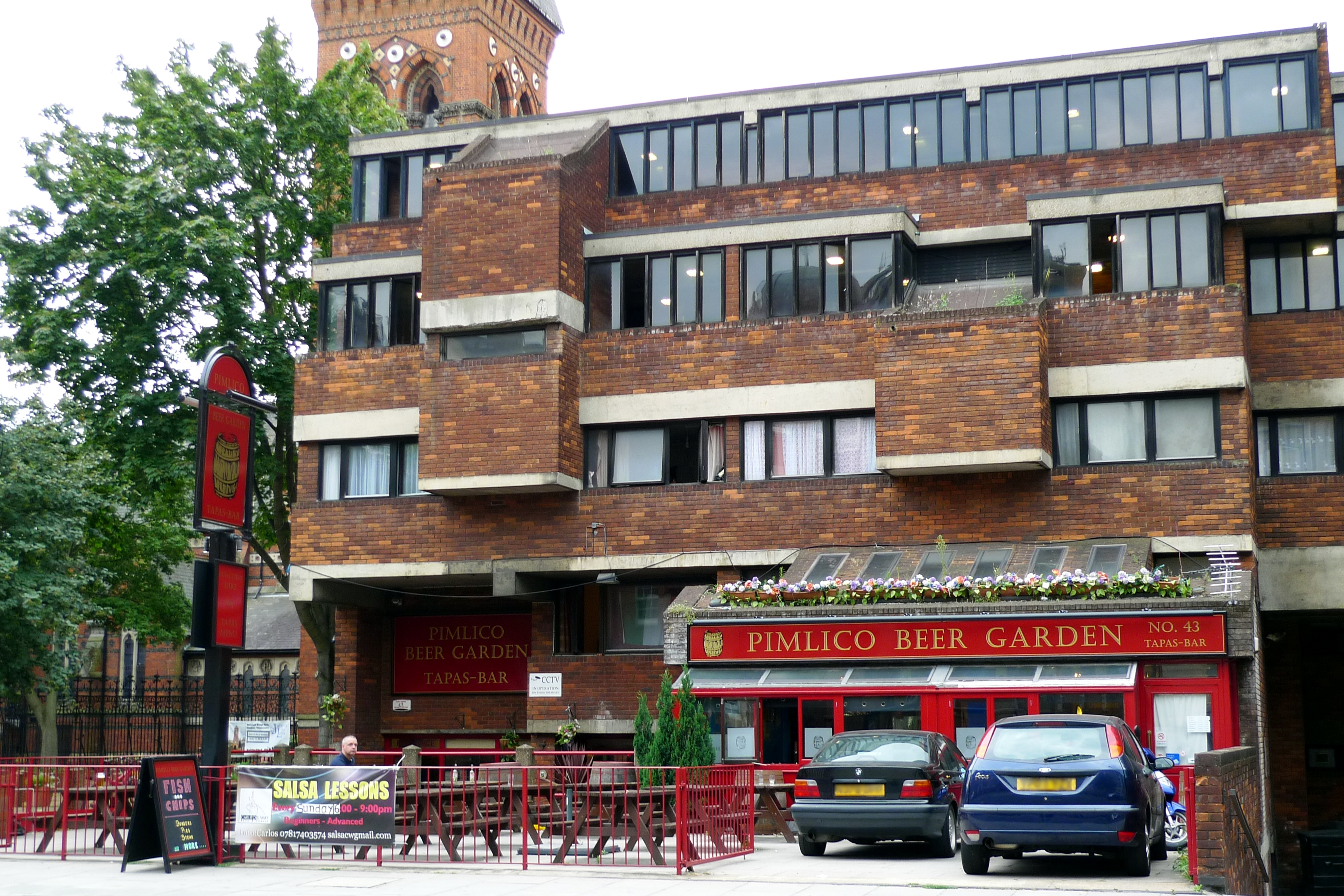 An estate pub, proclaiming tapas. Since closed, of course. (Photo of it as The Lord High Admiral.) Address: 43 Vauxhall Bridge Road. Former Name(s): The Lord High Admiral. Owner: Punch Taverns (former); Taylor Walker (former). Links: Fancyapint Beer in the Evening (Lord High Admiral) Dead Pubs (history)